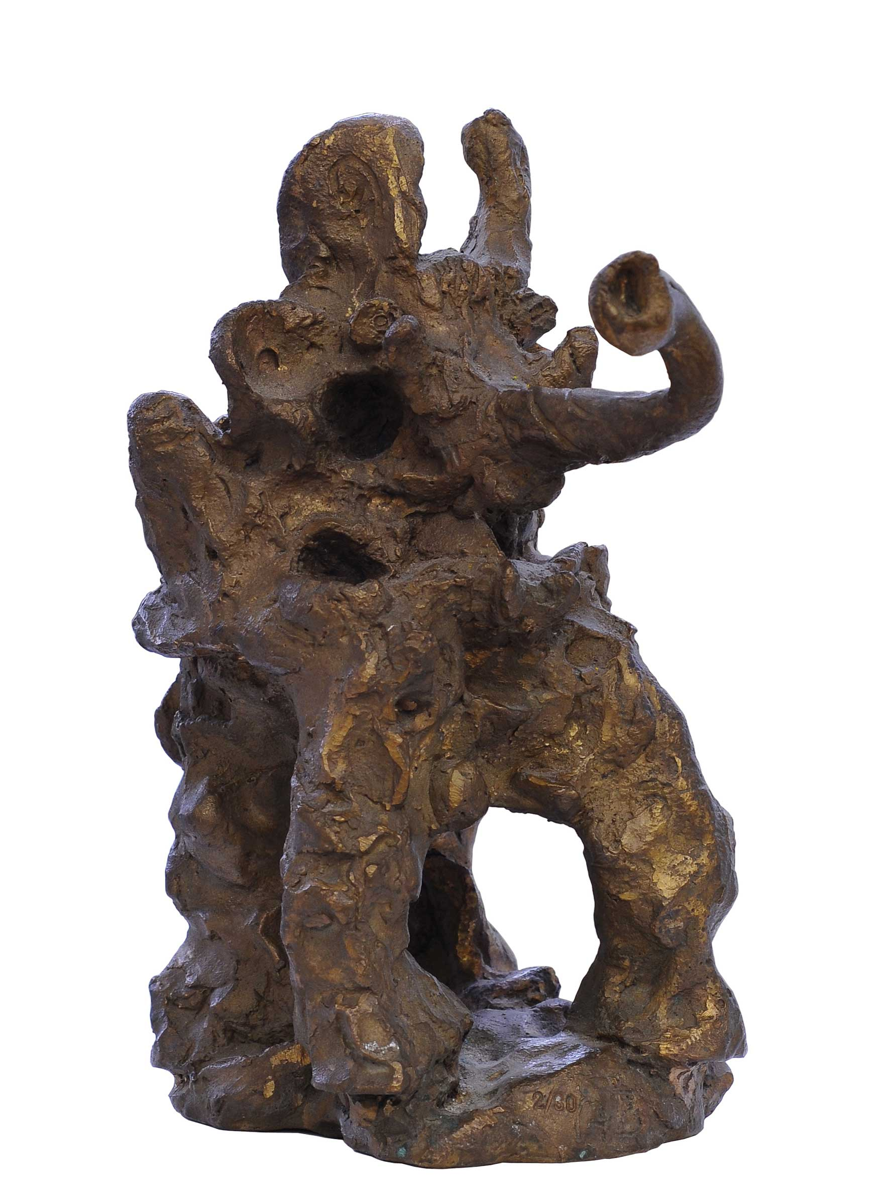 The " elefantine temper tantrum", Adolf Bierbrauer, Bronze Sculpture